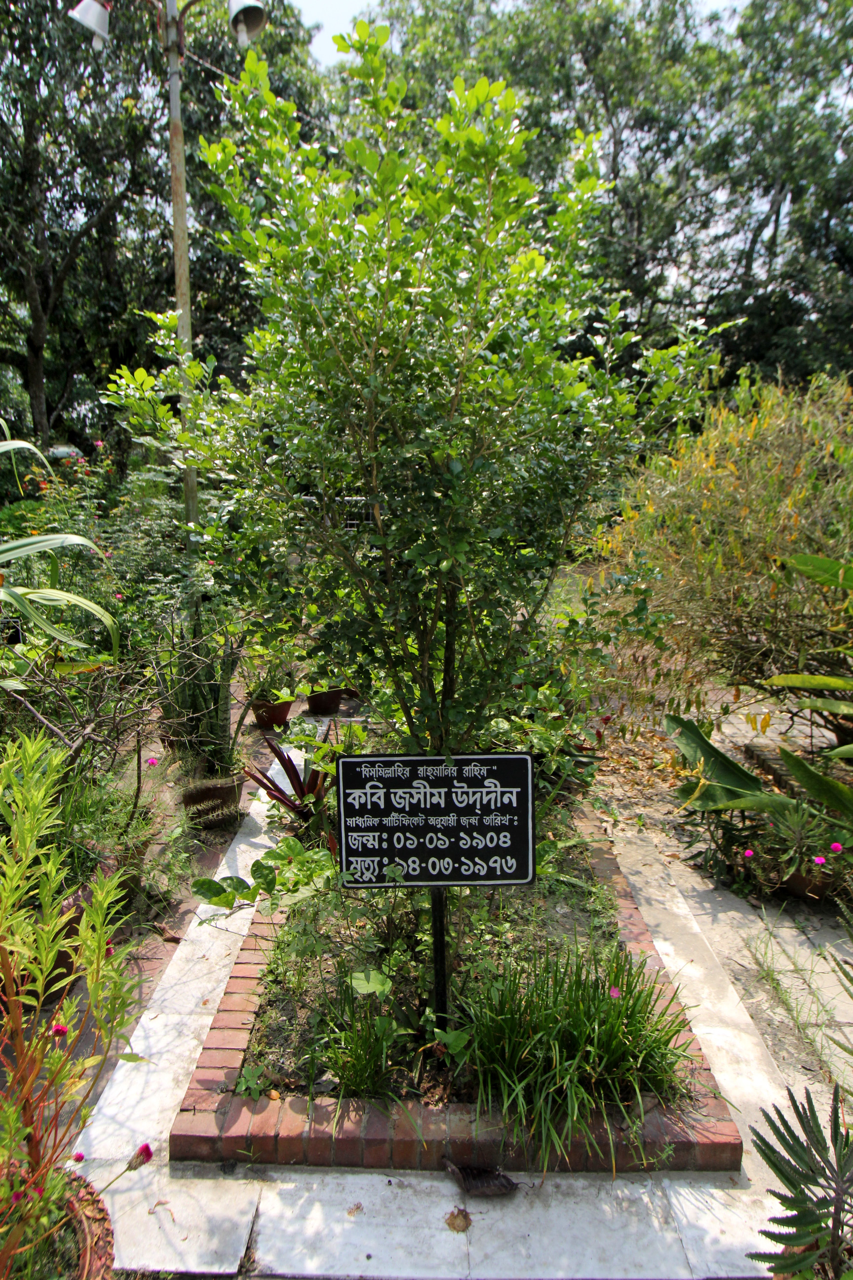 Burial of Bengali Poet Jasim Uddin, Bangladesh